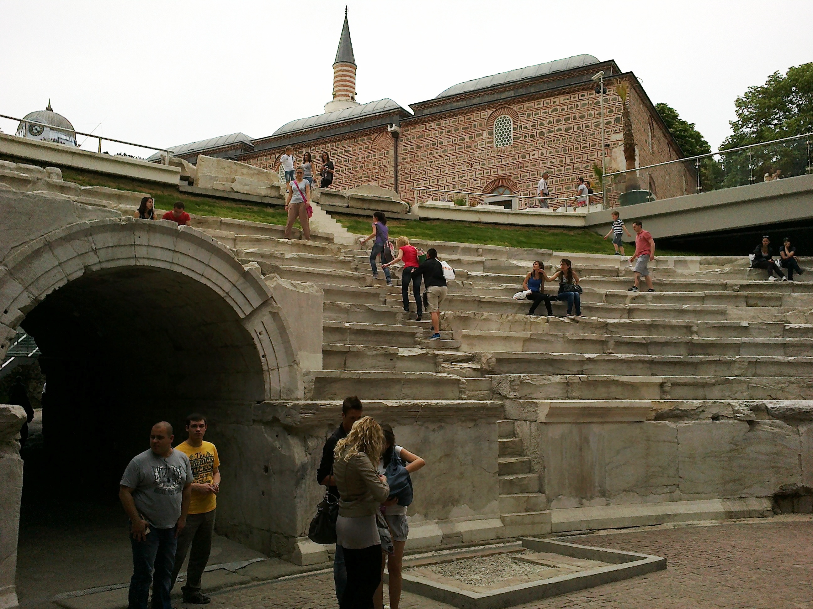 The sfendona and Dzhumaya mosque - view from the stadium track.